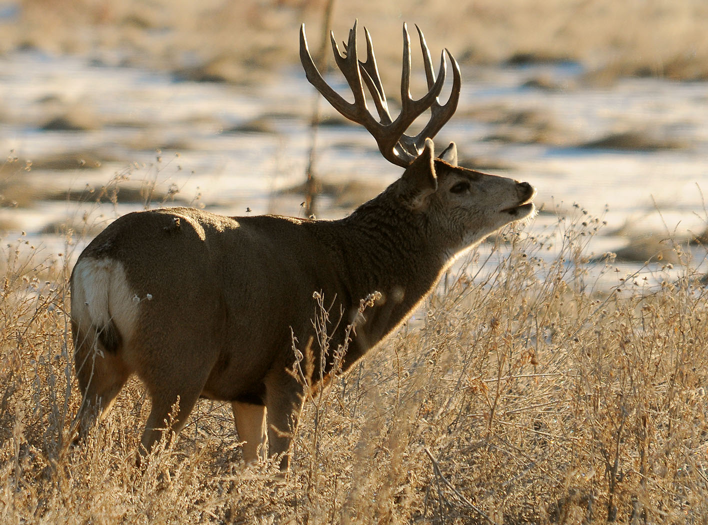 Both mule deer and white-tailed deer are found on Rocky Mountain Arsenal National Wildlife Refuge. Mule deer can be distinguished by their rope-like tail tipped in black. Photo Credit: Rich Keen / DPRA